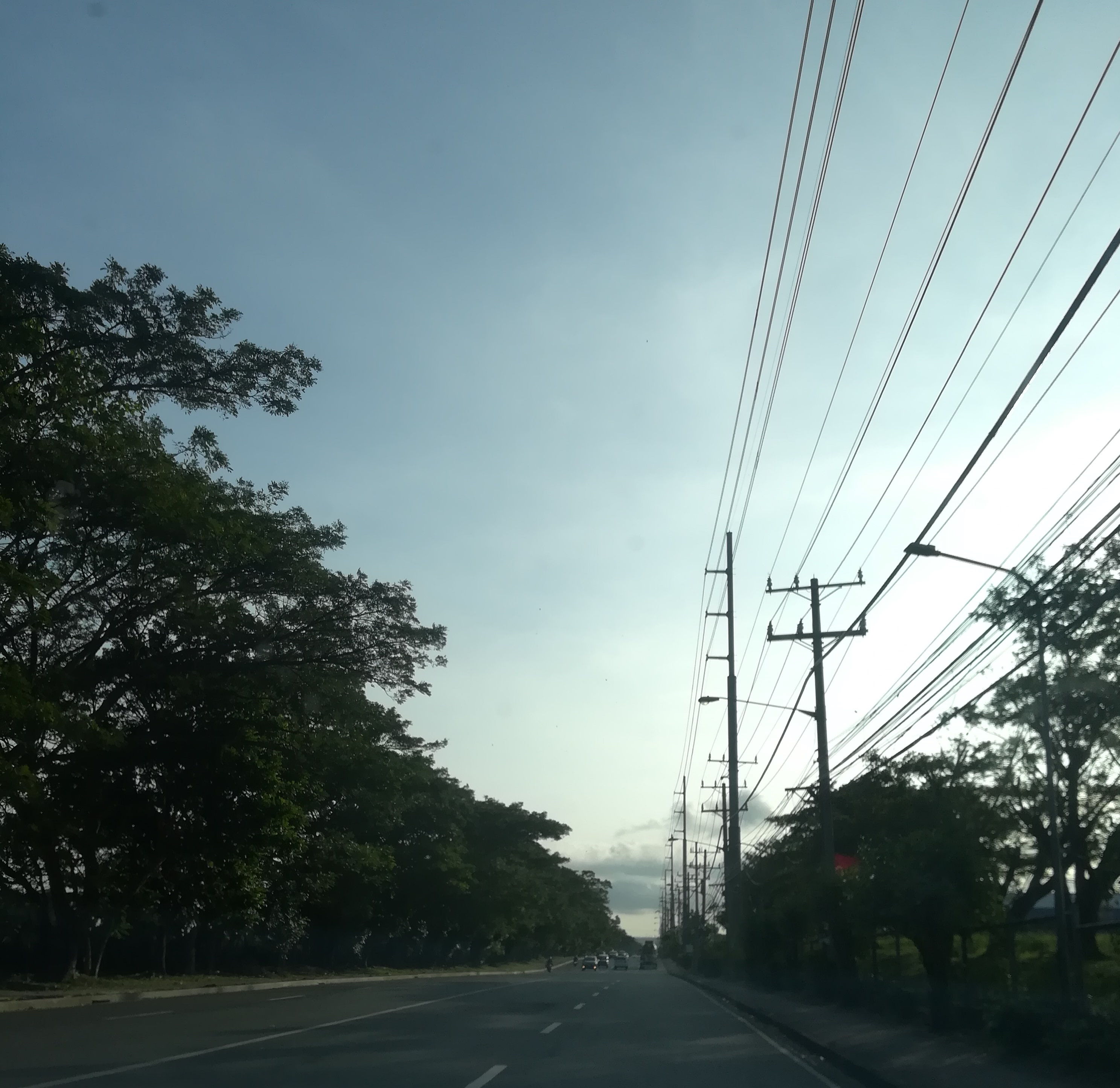 Santa Rosa - Tagaytay rd., Don Jose, Santa Rosa